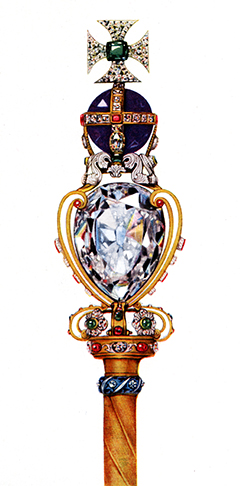 An illustration of the Sovereign's Sceptre with Cross.